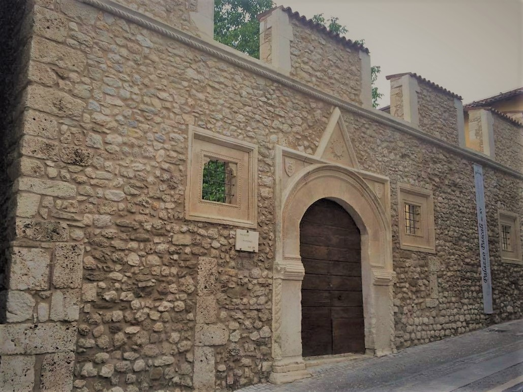 Palazzo Pascali in L'Aquila.